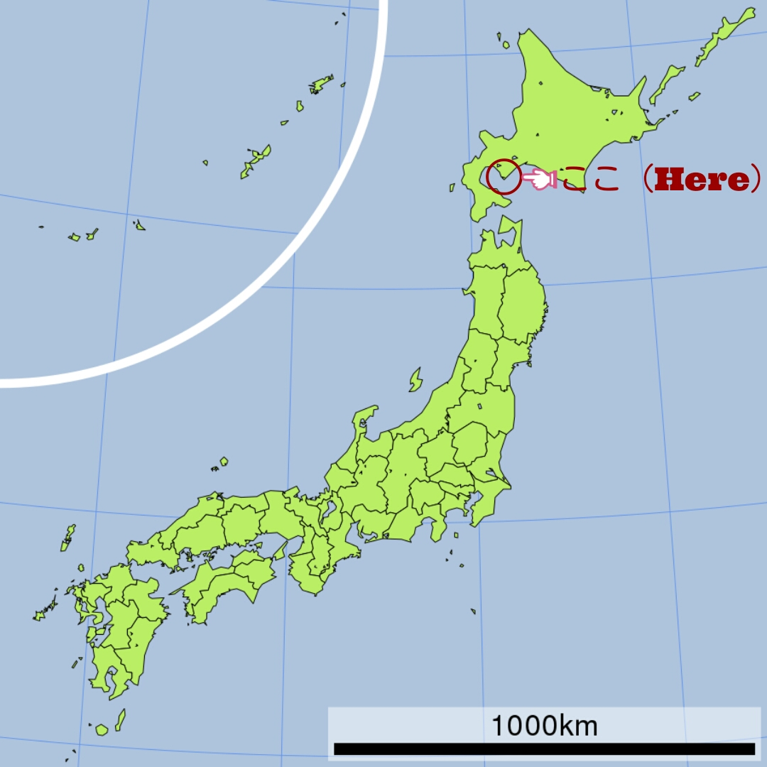 Japan Map made by Lincun